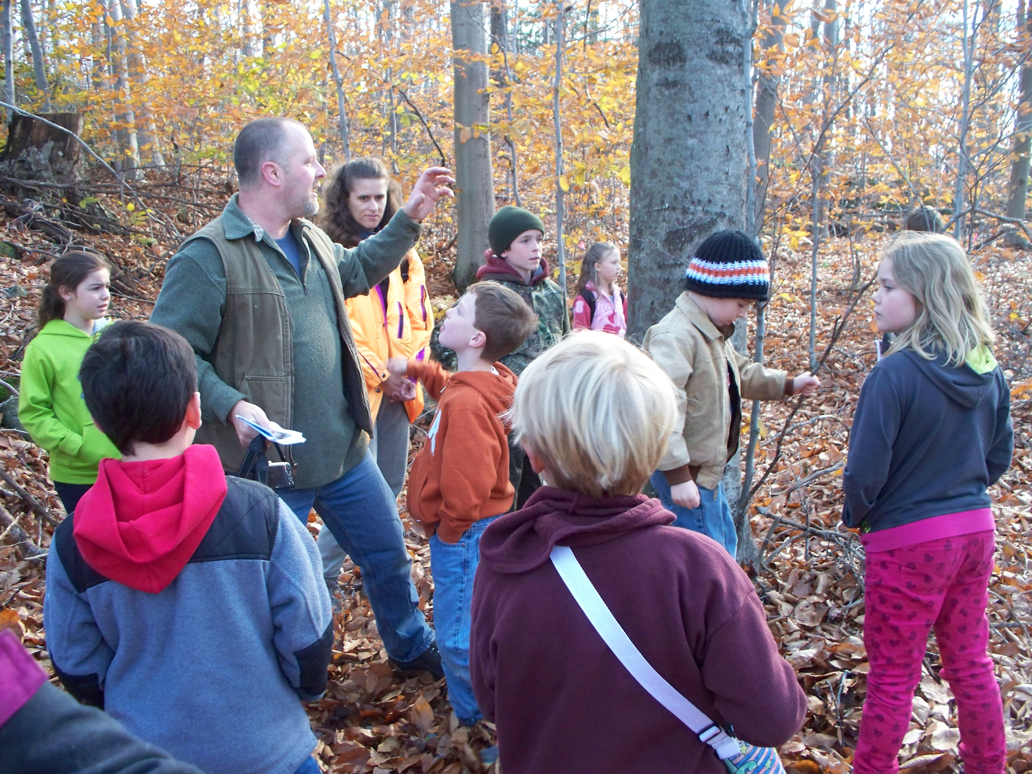 Southern Vermont Natural History Museum Assistant Director, Michael Clough, leading a group through the Hogback Mountain Conservation Area in search of black bear sign